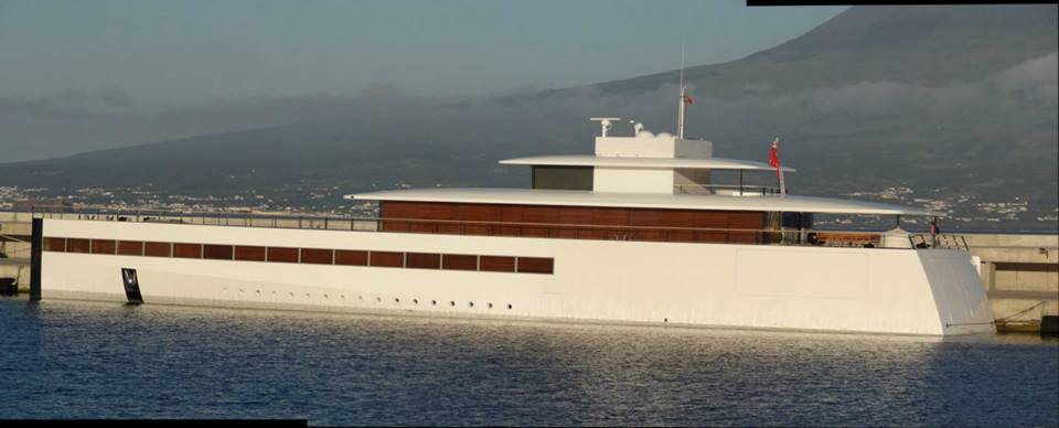 Steve Jobs Yacht Venus in Portugal (Faial Island)